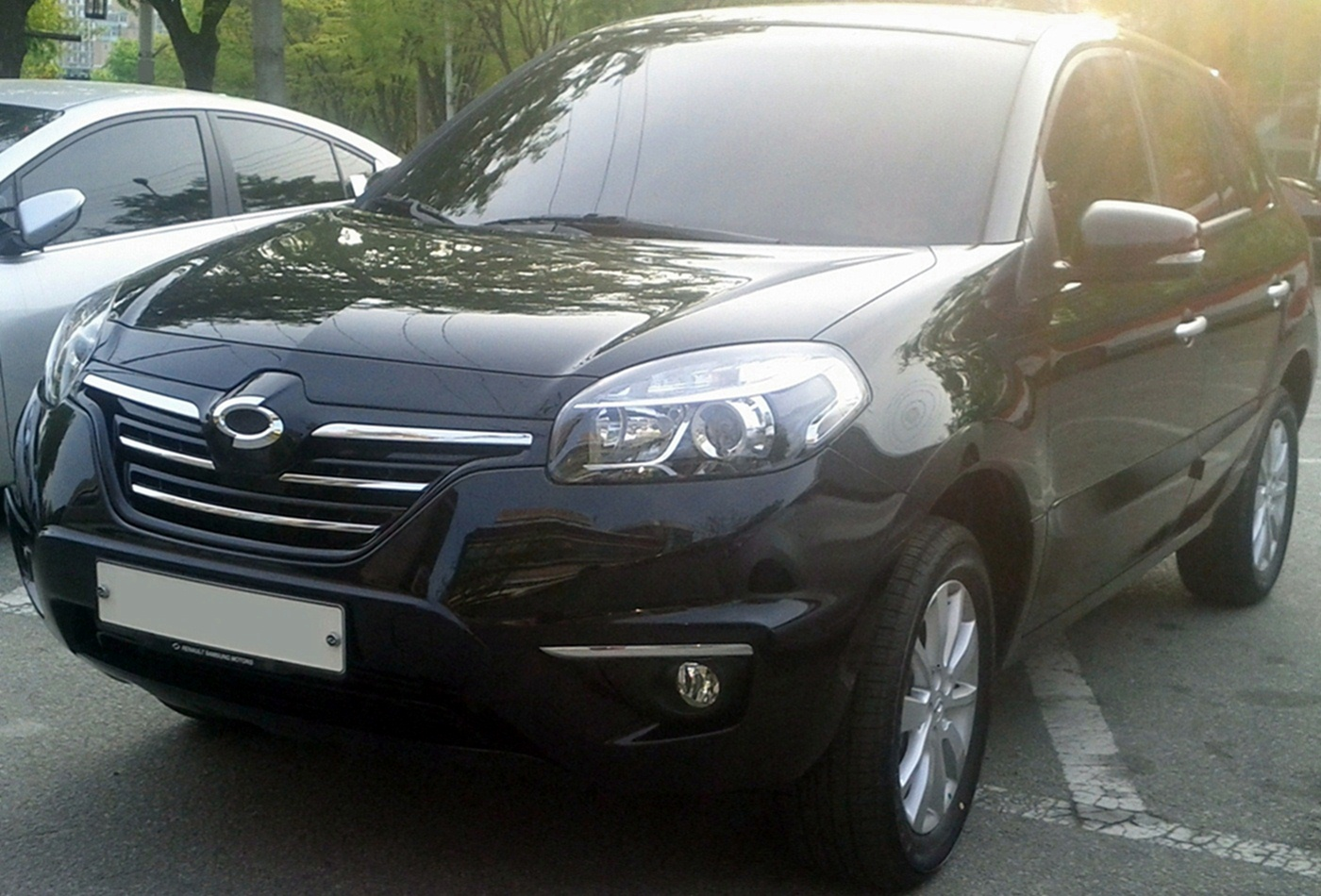 Renault Samsung QM5 Neo